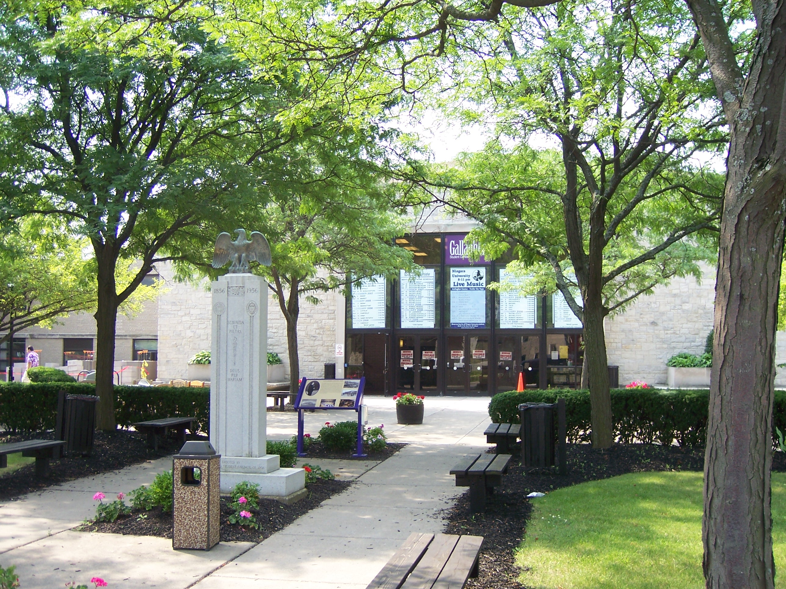 Main entrance to Niagara University´s Gallagher Center